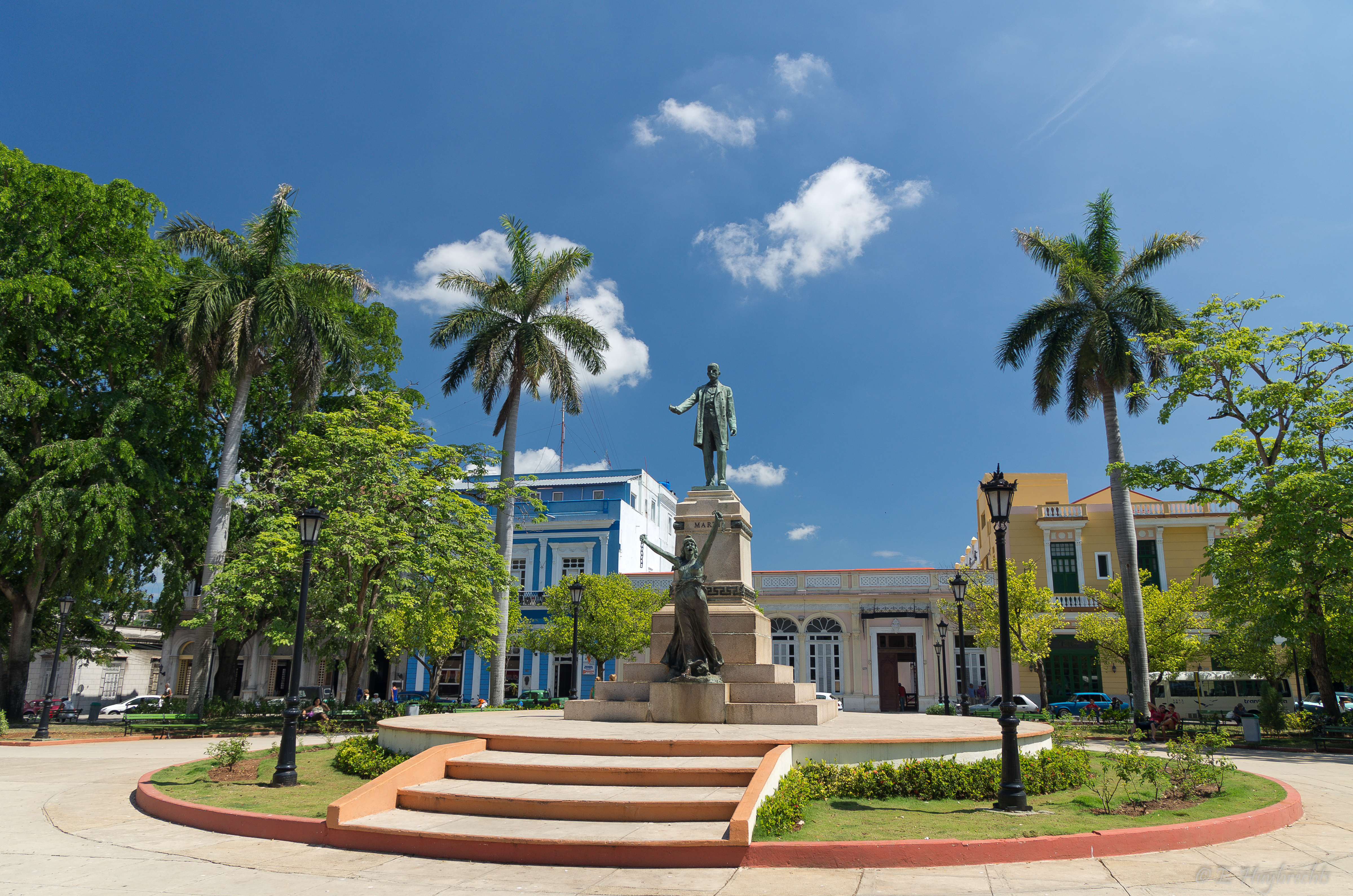 And the statue of José Marti